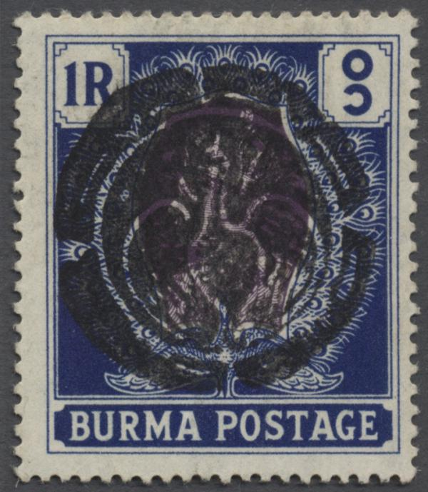 Stamp of Burma overprinted with black peacock by the Burmese Independence Army, 1942, 1 rupee.